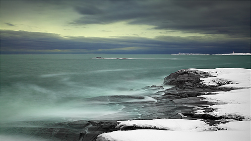 Hove, Arendal. Part of exhibit 'Local Moods' in 2007.